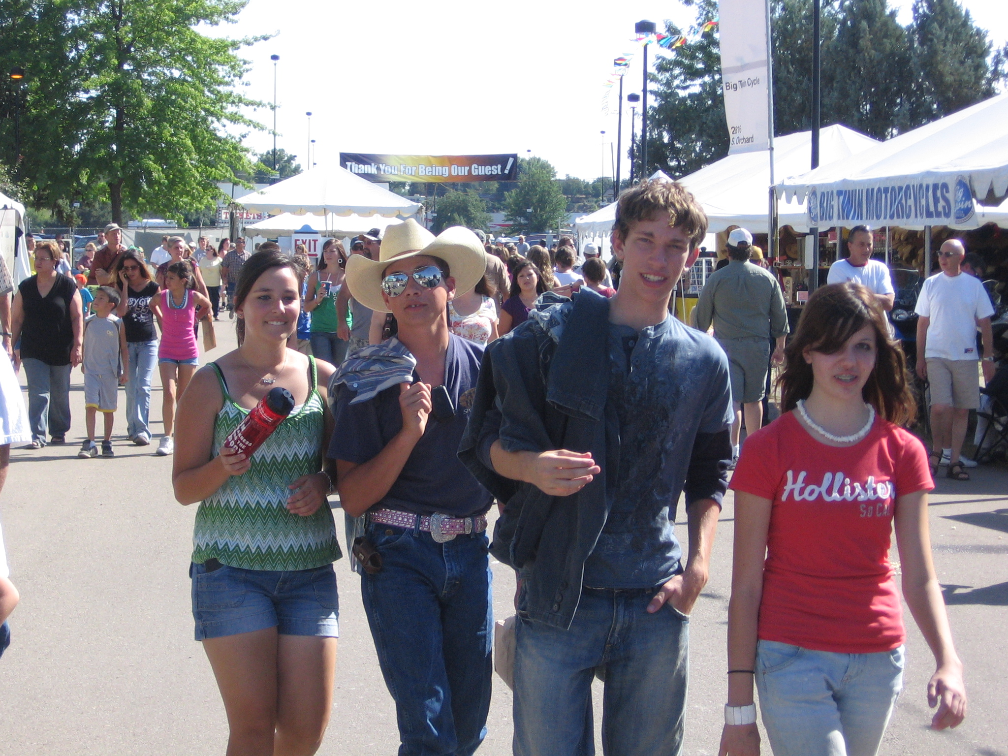 Two adolescent couples at the 2009 Western Idaho Fair in Garden City, Idaho.